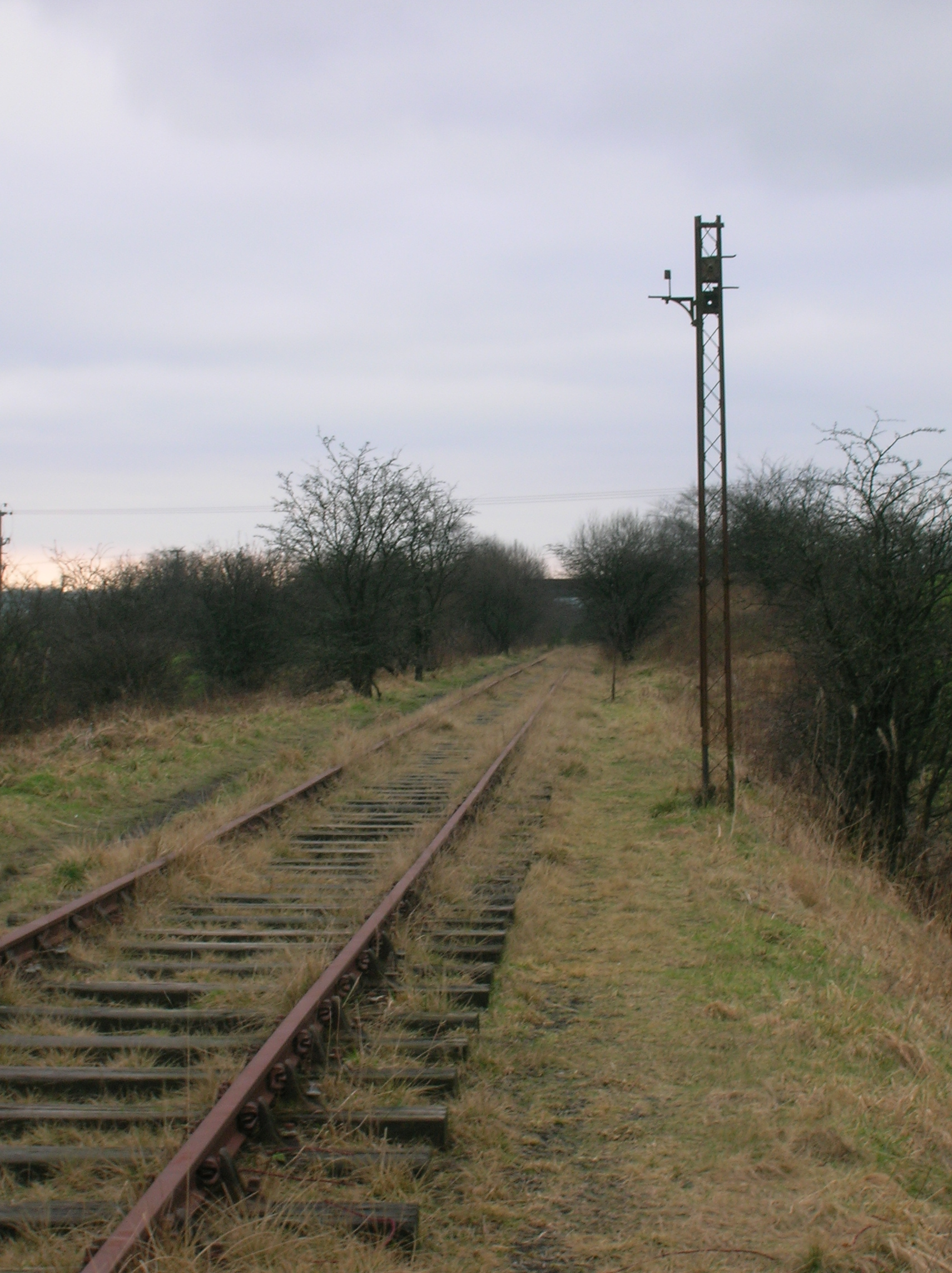 The line and old signal at Barmill, North Ayrshire, Scotland.